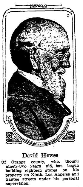 Newspaper portrait of David Hewes, American entrepreneur and property developer of Orange, California, with a caption, from the Los Angeles Times of August 24, 1913.